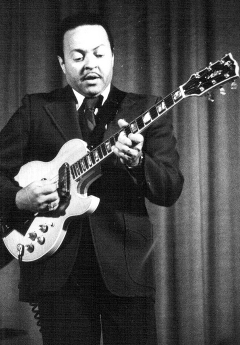 US Soul-jazz guitarist Billy Butler in France